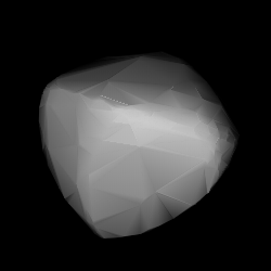 3D convex shape model of 3174 Alcock, computed using light curve inversion techniques. J. Hanuš, J. Ďurech, M. Brož, B. D. Warner (June 2011). "A study of asteroid pole-latitude distribution based on an extended set of shape models derived by the lightcurve inversion method". Astronomy and Astrophysics 530: A134. ISSN 0004-6361. arXiv